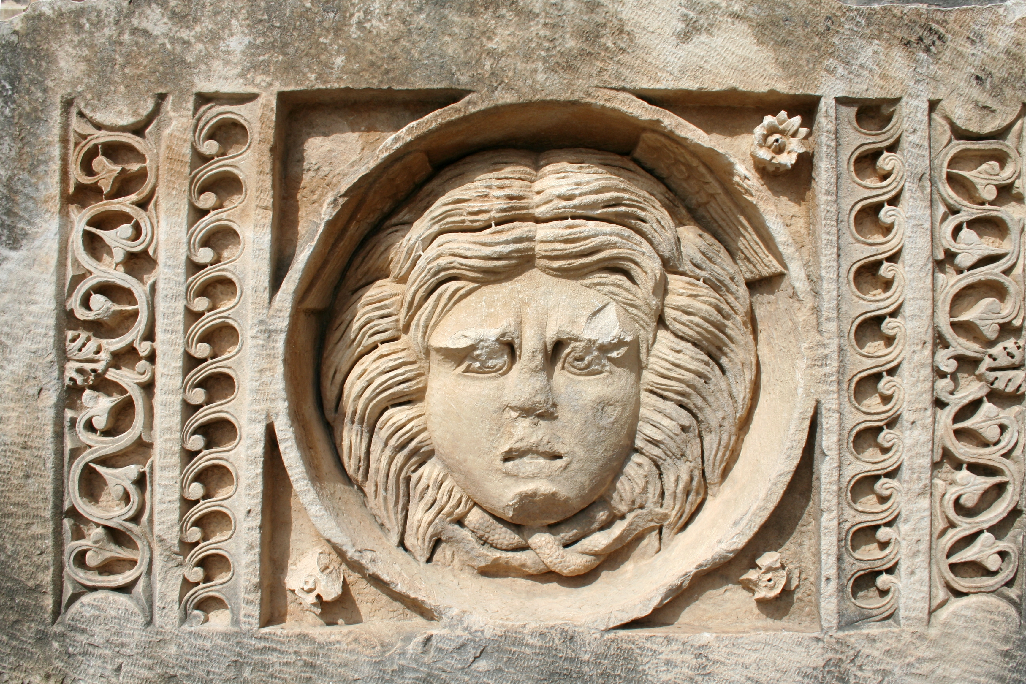 Demre - Ruins of Myra - Medusa